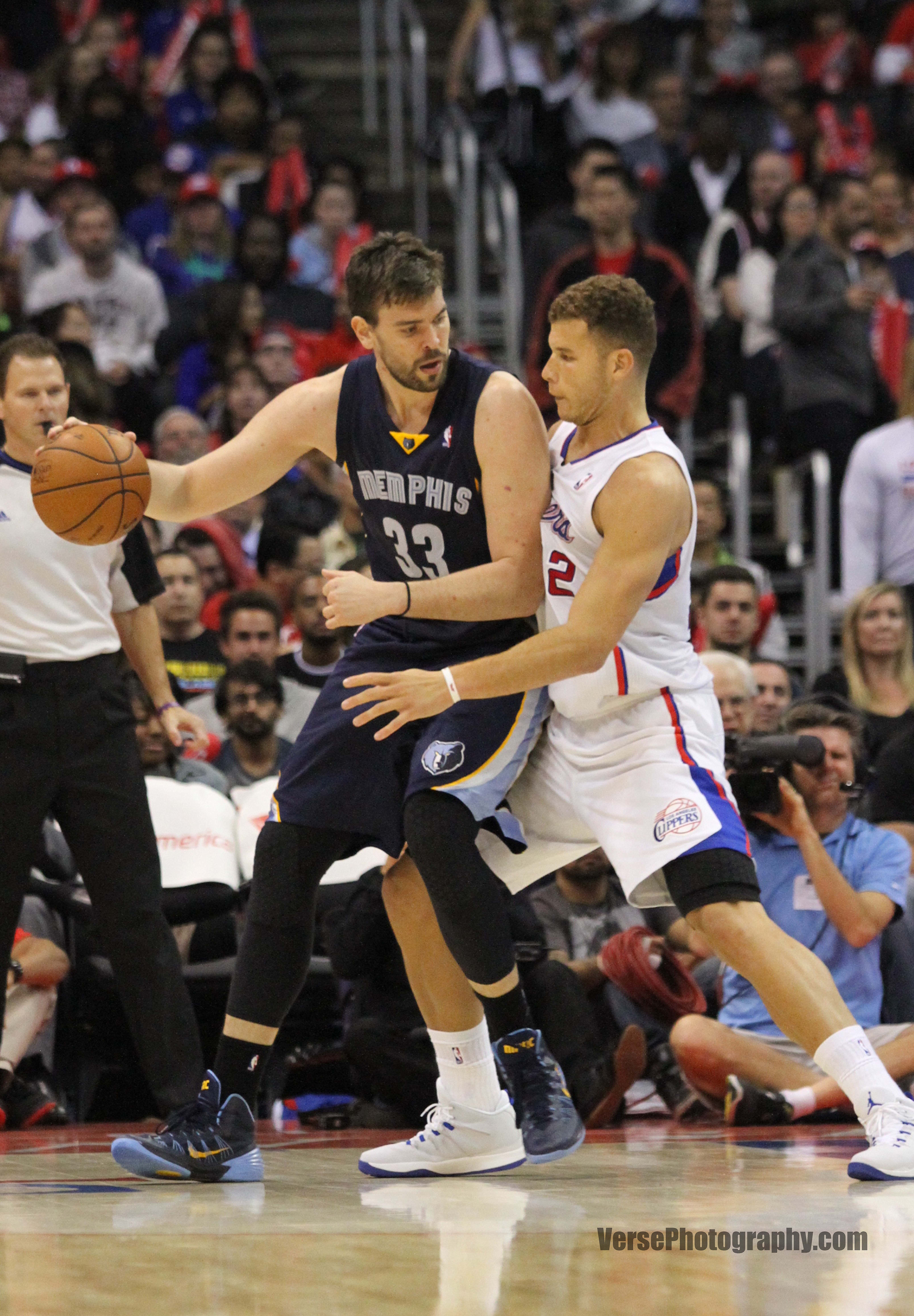 Marc Gasol of the Memphis Grizzlies and Blake Griffin of the Los Angeles Clippers.